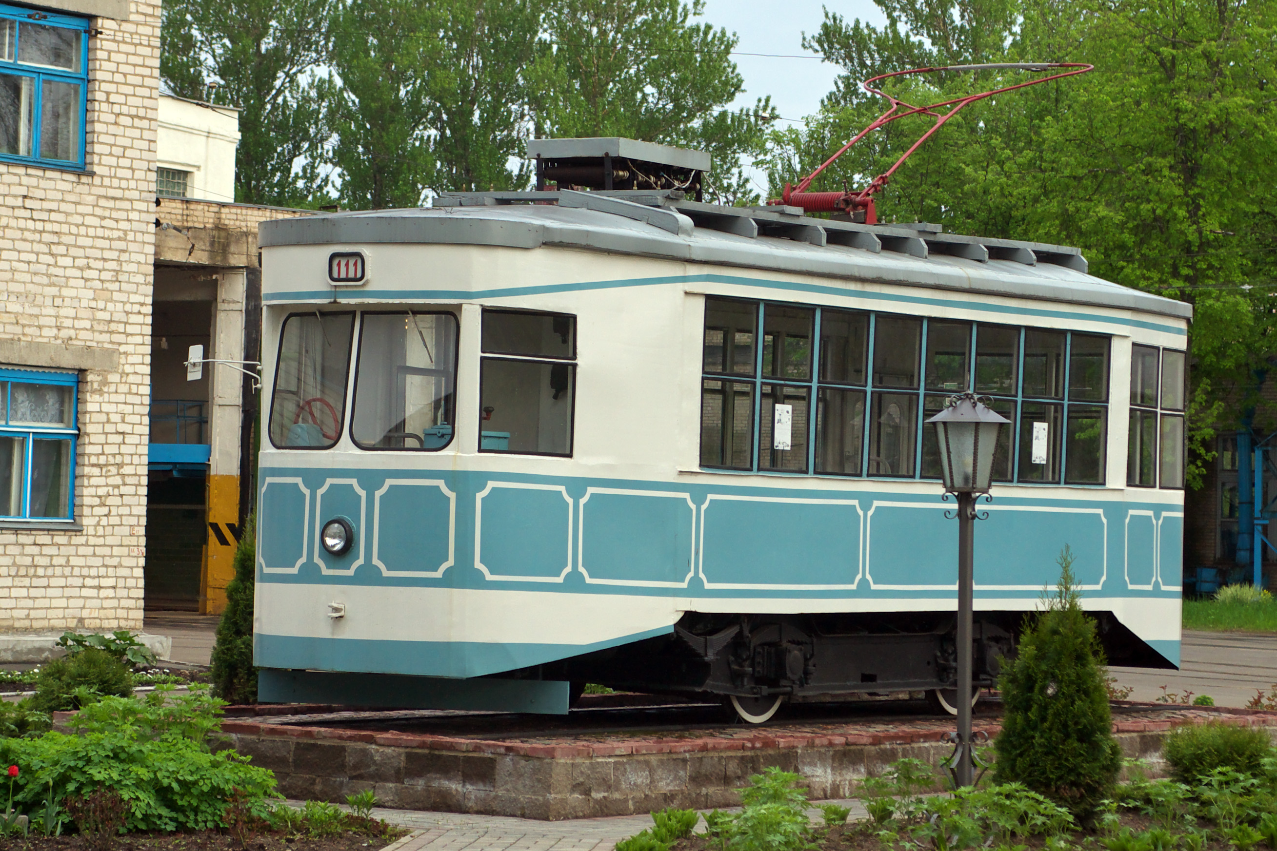 The motor tram of Kh type in Tram museum of Vitebsk, Belarus